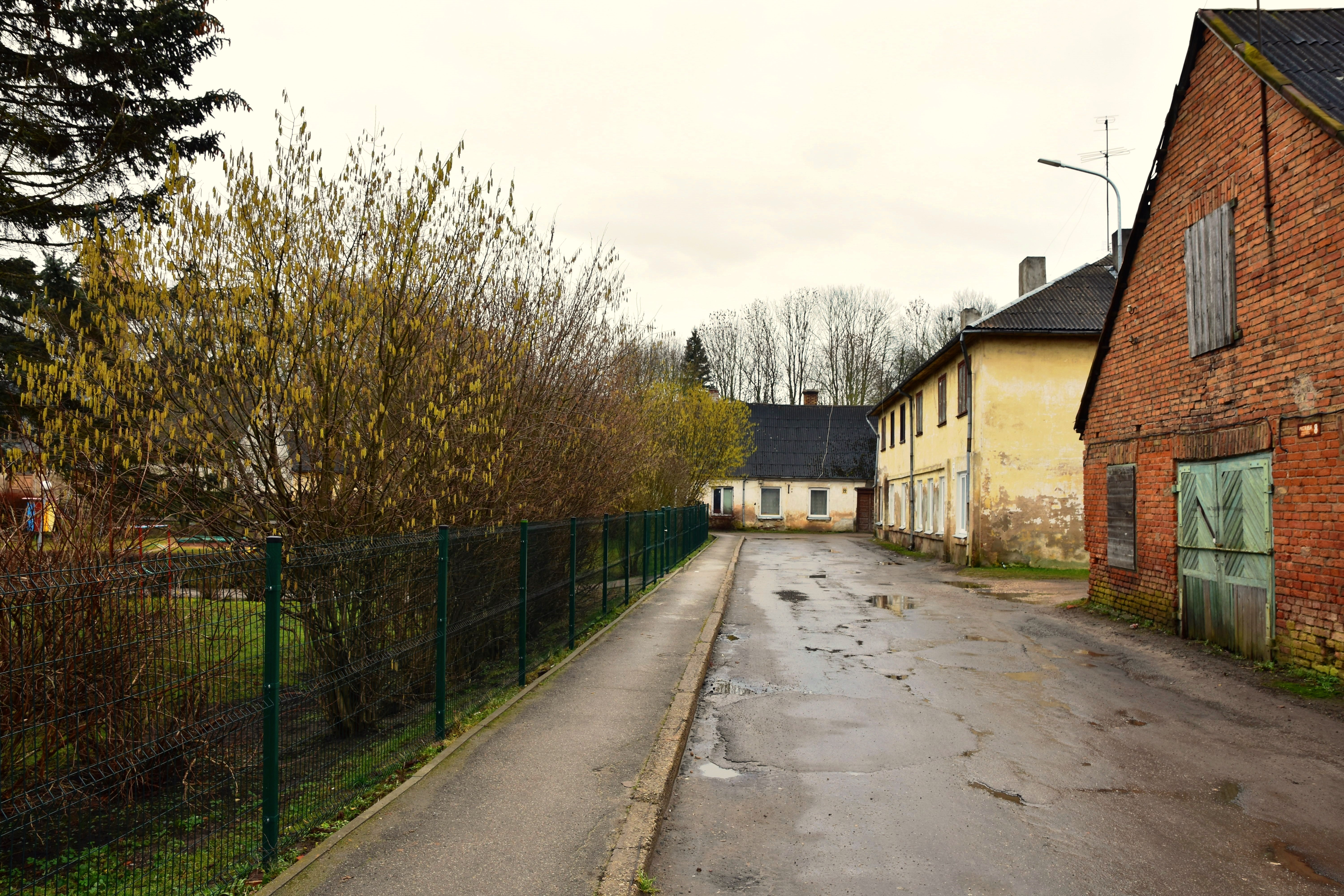 Pasta Street in Bauska. Flowering trees in winter, unusual for this location.